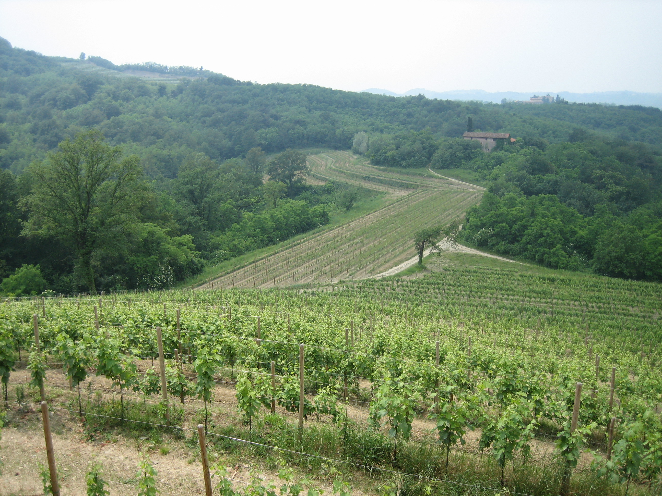 Vineyards in the Northeast Italian wine region of the Friuli-Venezia Giulia.